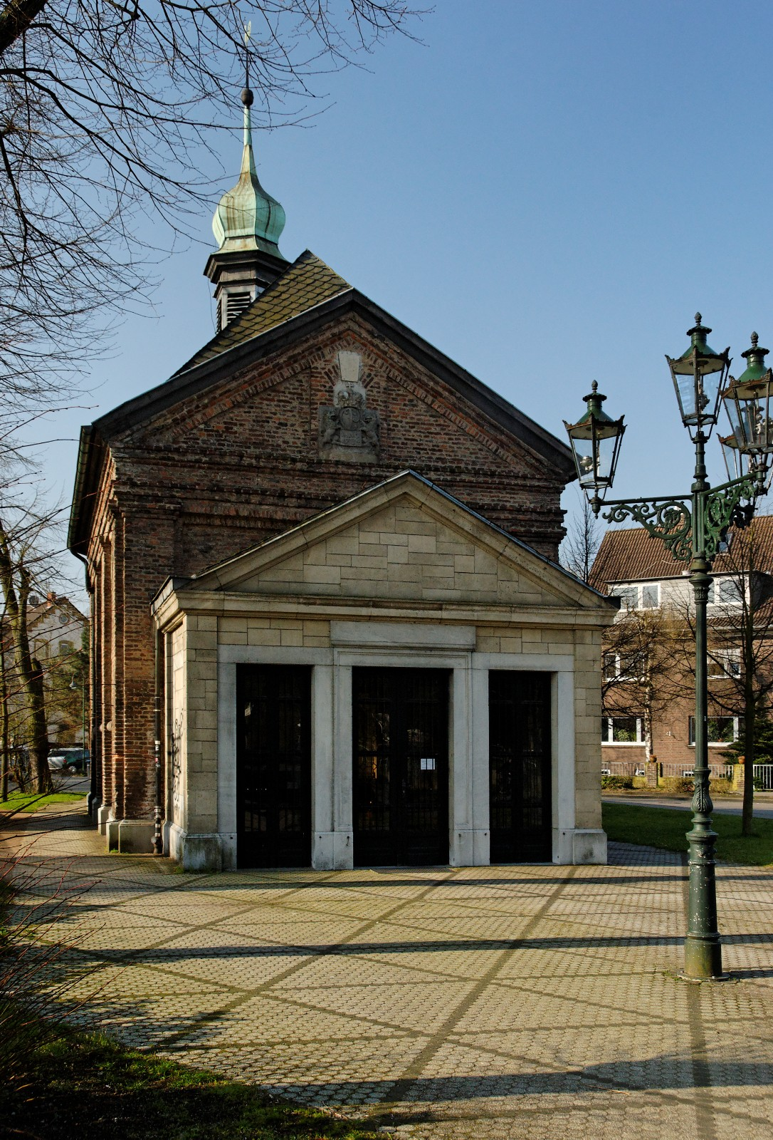 Chapel of Stoffel in Düsseldorf-Bilk, Germany